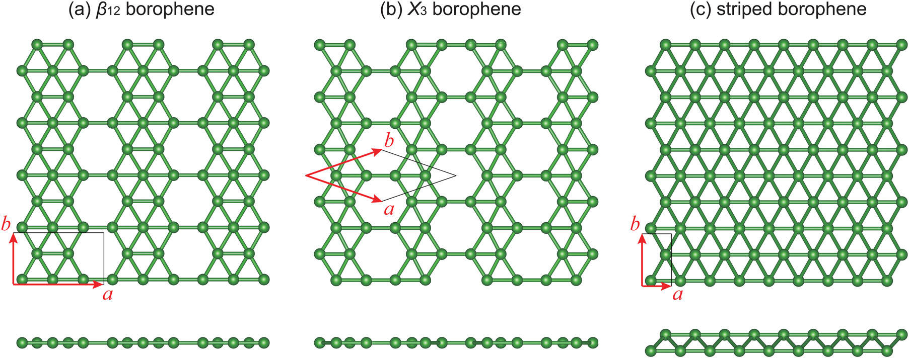 Crystal structures of three experimentally obtained 2D boron crystals: β12 borophene, χ3 borophene, and a non-flat borophene form.